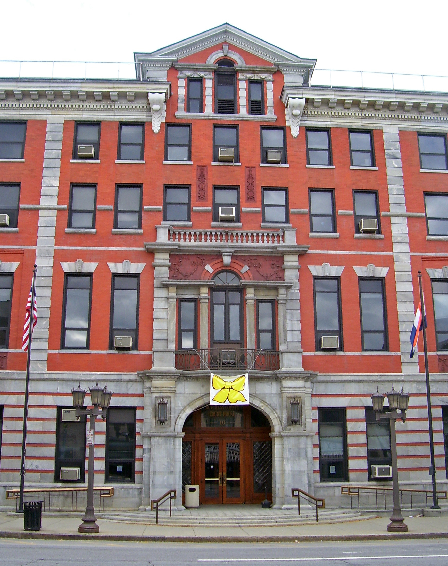 Dutchess County Courthouse, Poughkeepsie, NY, USA Object location41° 42′ 14″ N, 73° 55′ 47″ W